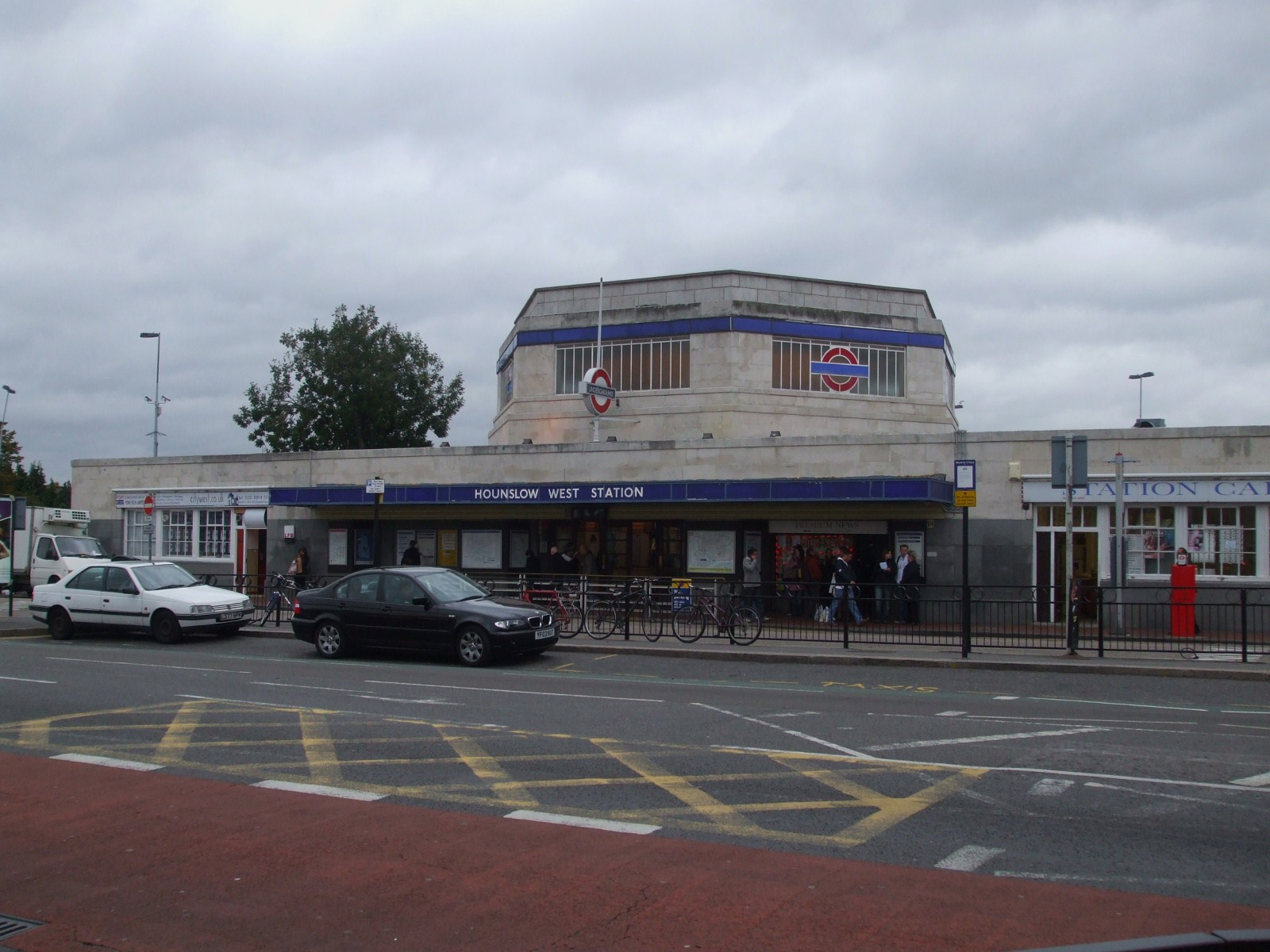 Hounslow West tube station building